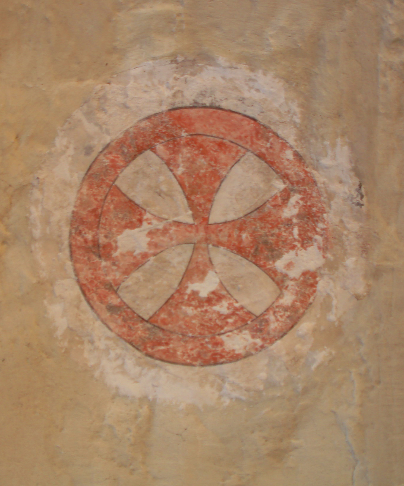 Consecration cross (in the shape of a Cross pattée in a circle) on interior wall of mediaeval Slidredomen church, Vestre Slidre, Norway